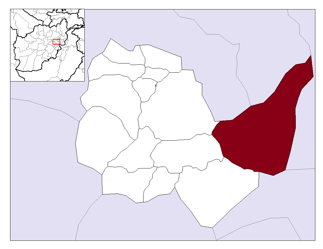 District locator in Kabul Province